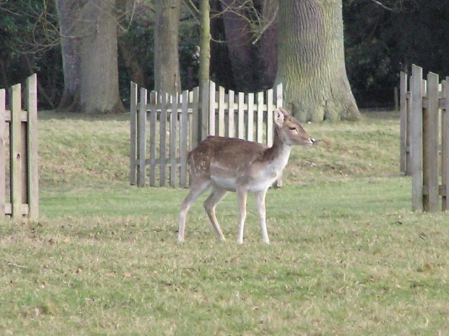 Deer in Hackwood Park